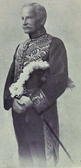 MacCallum Grant (May 17, 1845 – February 23, 1928), a Canadian businessman and the 12th Lieutenant Governor of Nova Scotia from 1916 to 1925.